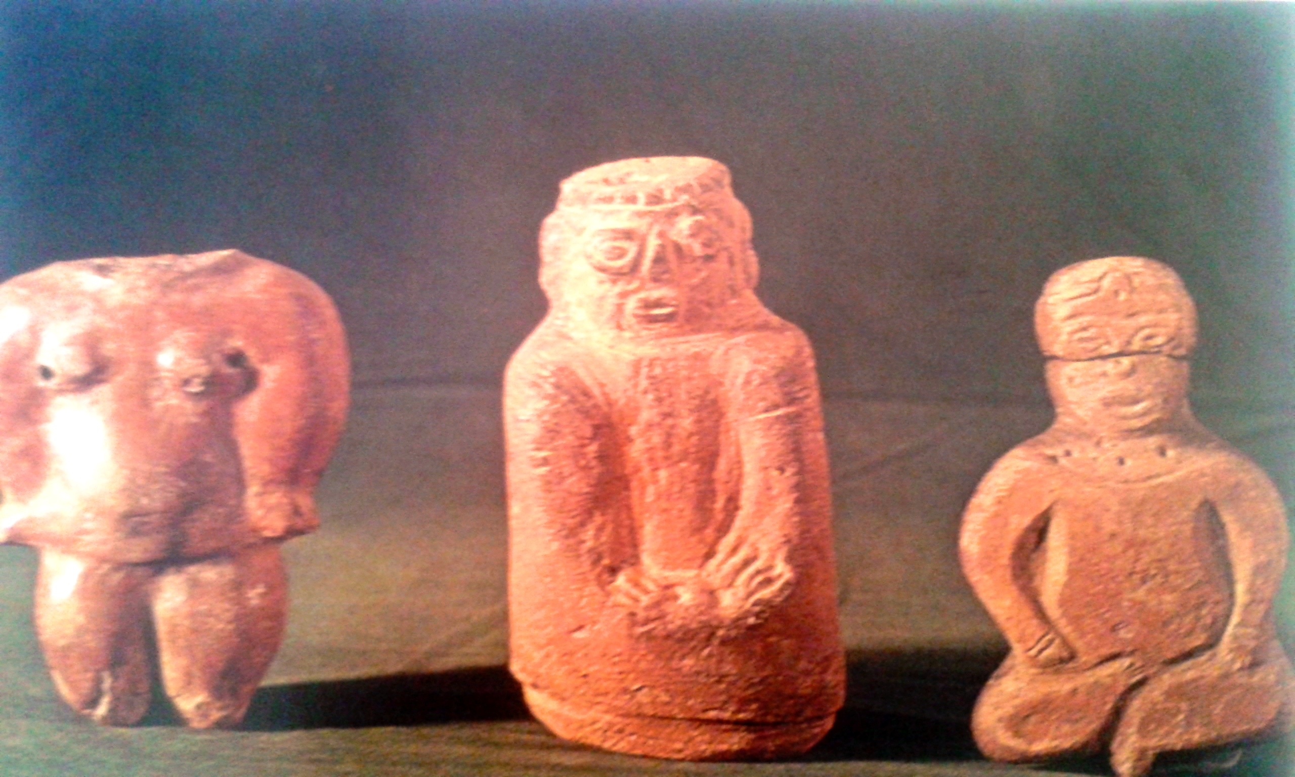 Ceramic Figurines from Cotocollao.